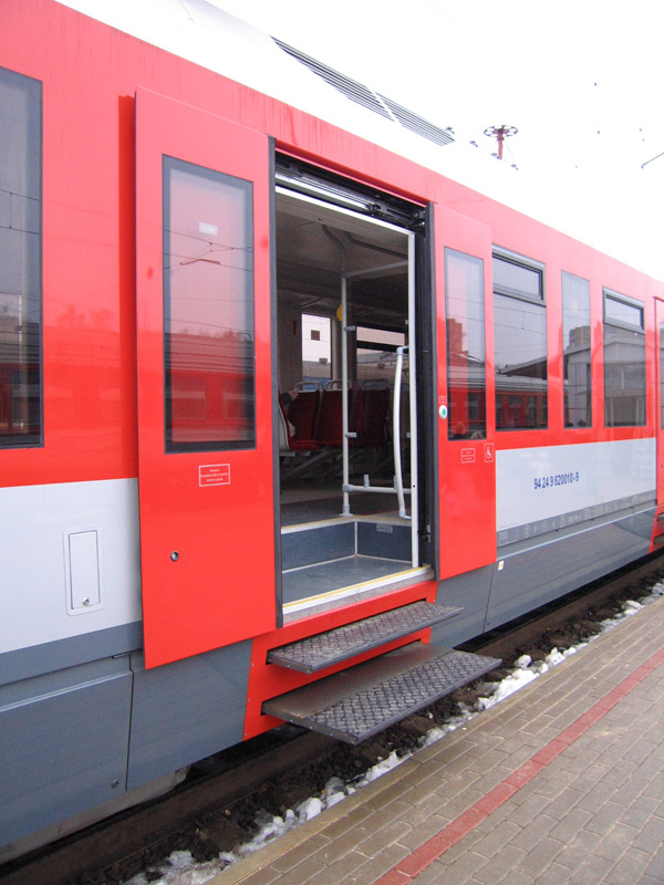 Railcar PESA 620M in Vilnius train station 2009.